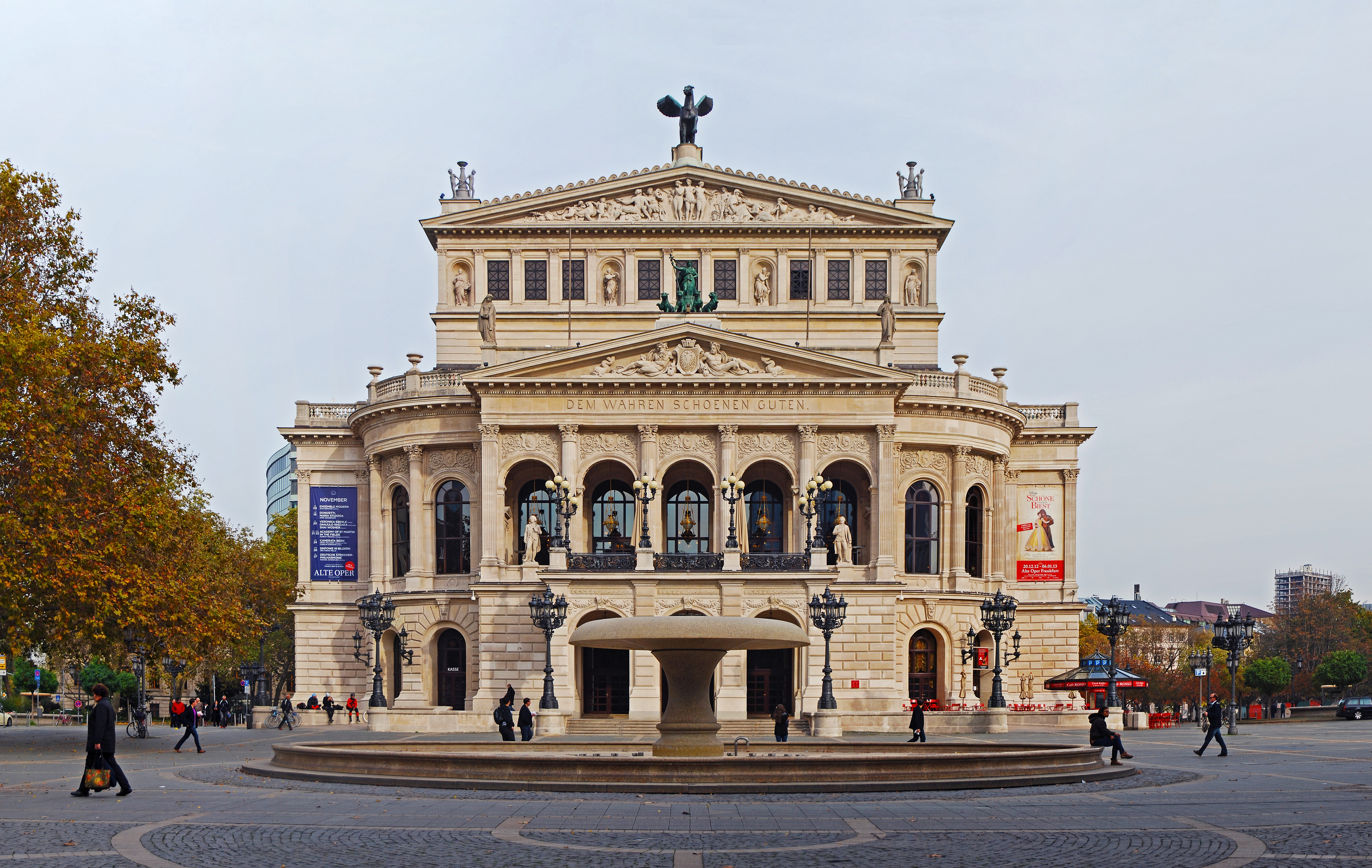 Alte Oper in Frankfurt am Main, Hesse.